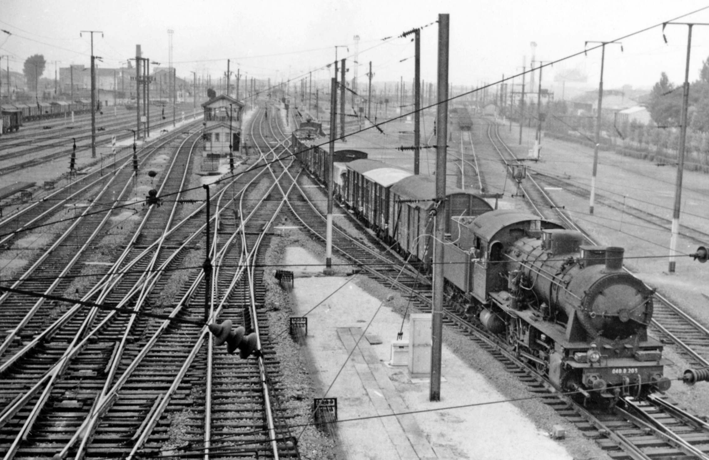 Valenciennes (Nord), 1958: main line and marshalling yards, with an 0-8-0 shunting.